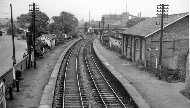 Basford Vernon (former Basford LMS) Station View southward, towards Radford Junction and Nottingham (Midland). This station (renamed in 8/52) was closed 4/1/60 (Goods 2/10/67) and remains closed. It was north of Radford Junction, where the Midland main line from Nottingham to Sheffield via Trowell and the Erewash Valley turns off the line to Mansfield and Worksop. The latter line was closed to passengers on 12/10/64. Also most goods traffic ceased on 2/10/67, but the line remained open as far as Newstead to freight and 25 years later it was resuscitated and adapted as the Robin Hood Line, being subsequently reopened out to Worksop.